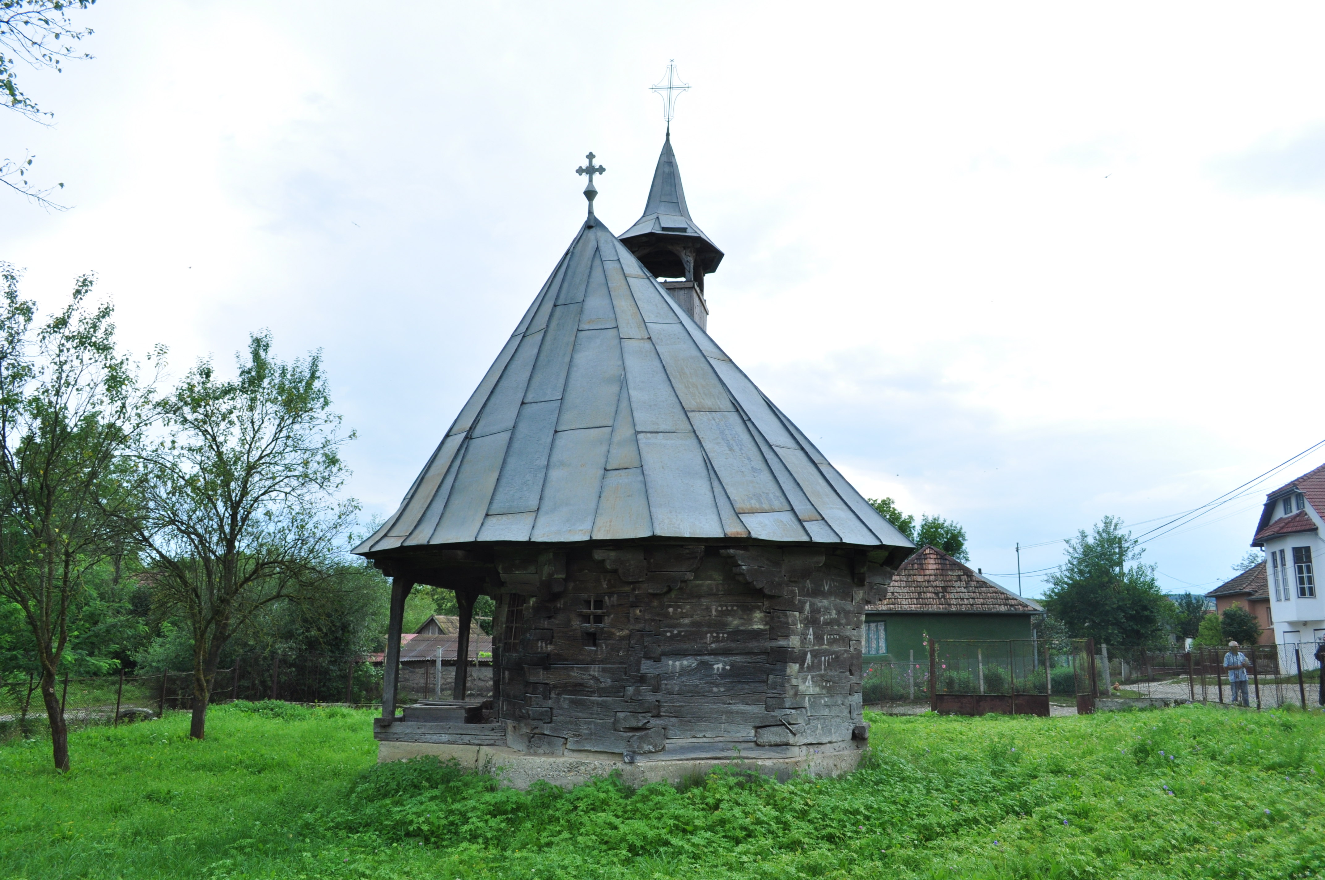 Wooden church in Strugureni, Bistrița-Năsăud countyRomână: Biserica de lemn din Strugureni